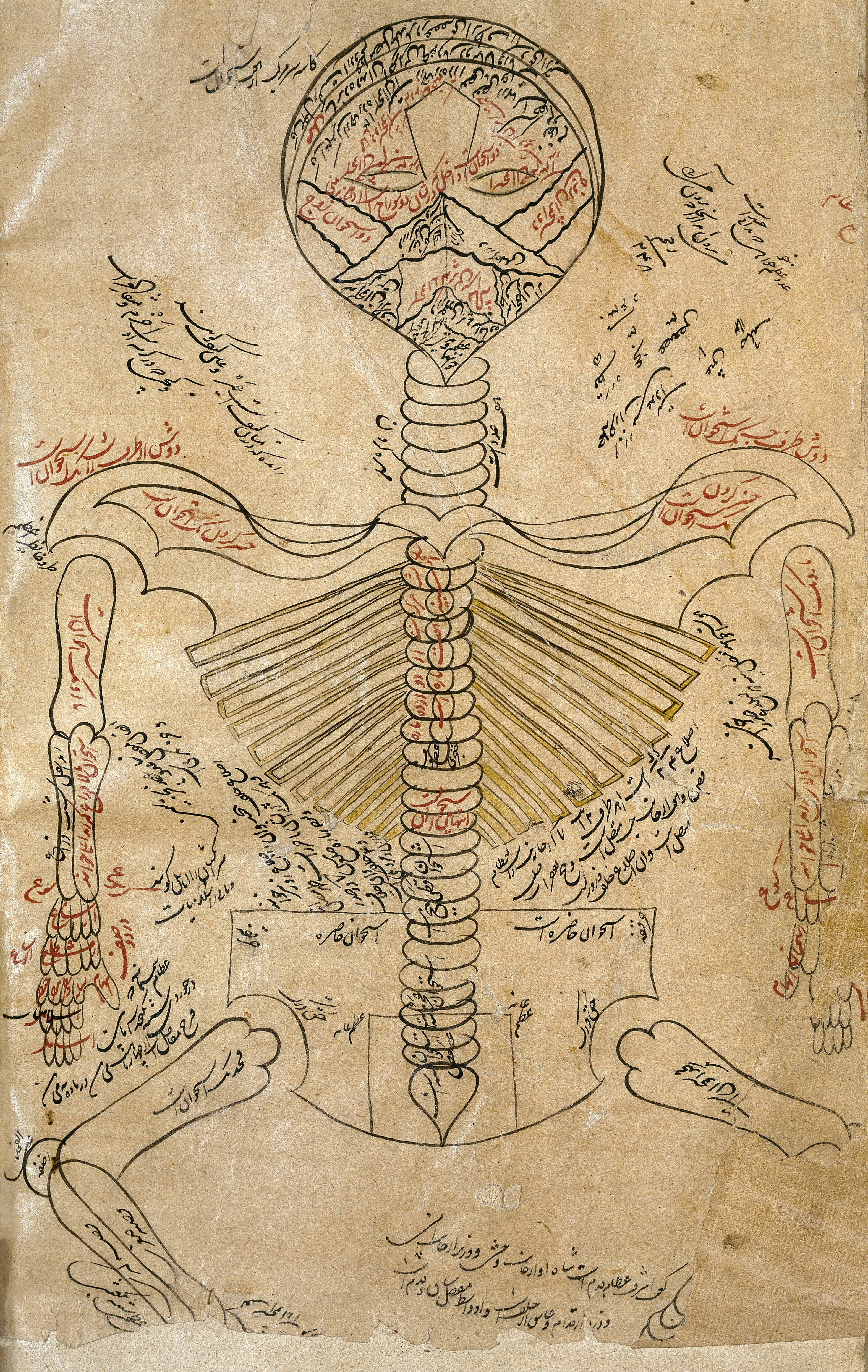 Skeleton system. Asian Collection Keywords: Arabic; Islamic; Persian; Medicine; Ibn Sina (Avicenna); Middle East; Iraq; Iran